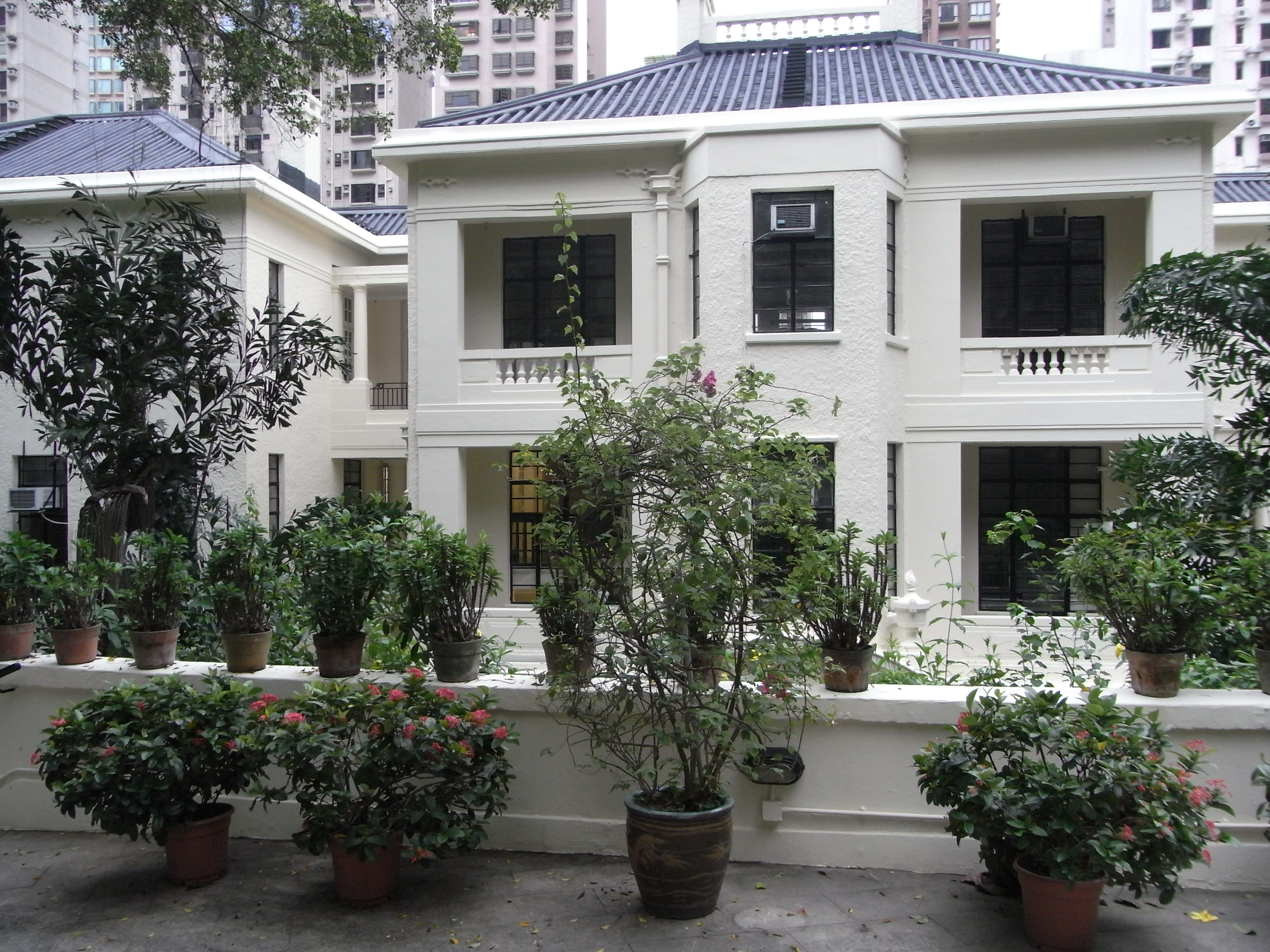 香港島半山區 列堤頓道 聖士提反女子中學